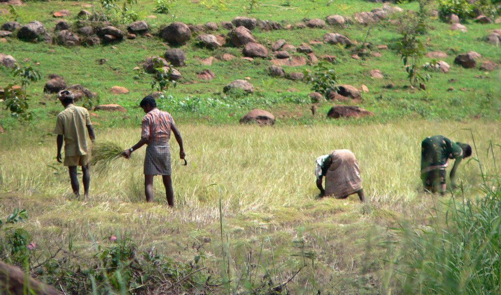 Farmers harvesting paddy near Vellore, Tamil Nadu, India.